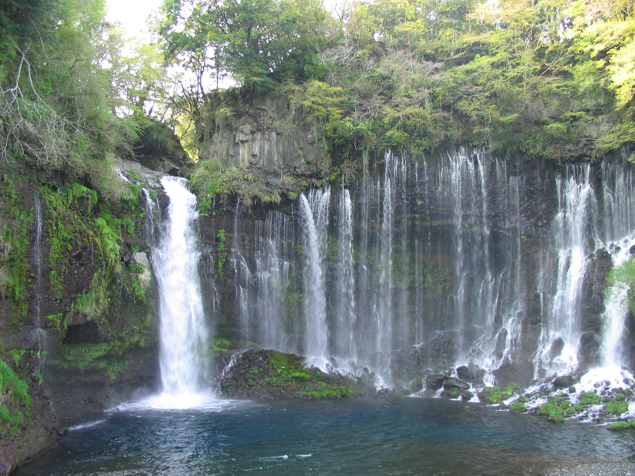 Shiraito Falls, JapanShiraito Falls #1